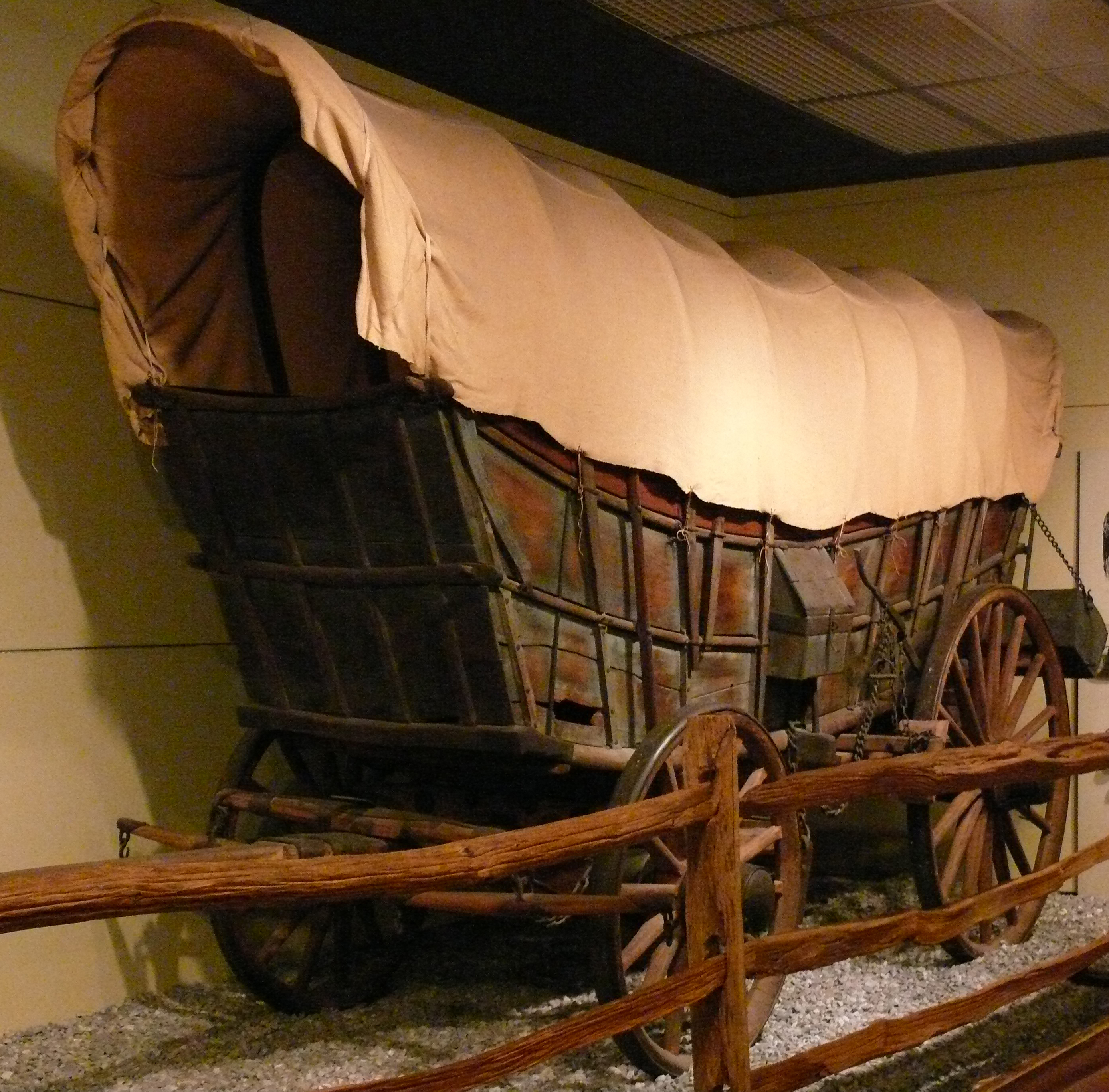 The Conestoga wagon is a heavy, broad-wheeled covered freight carrier used extensively during the late 1700s and 1800s in the United States. This one is in the State Museum of Pennsylvania